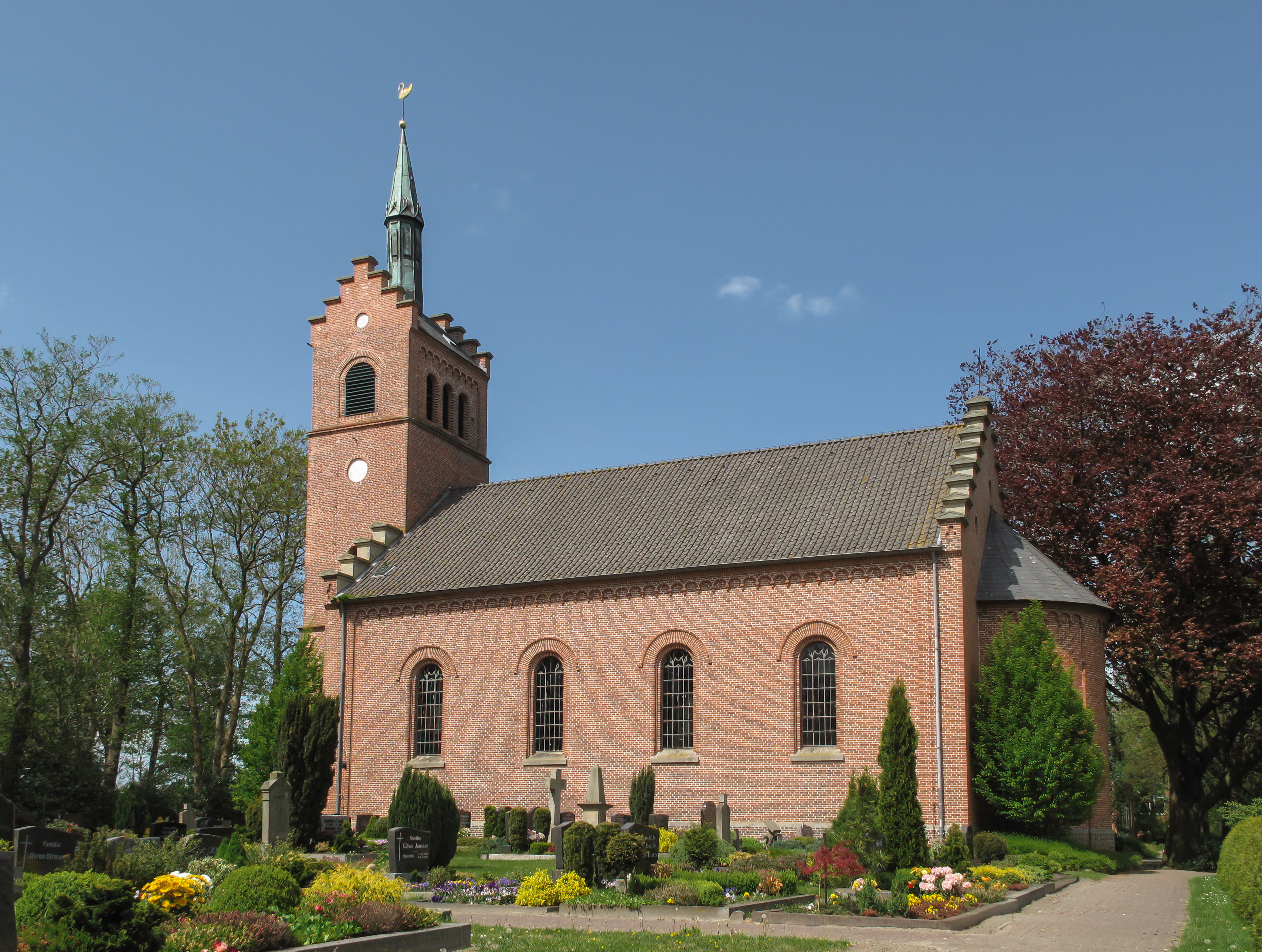 St. Martin's Church in Posthausen